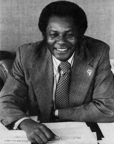 Photo of William Lucy at the Eugene V. Debs Dinner in Chicago, 1984